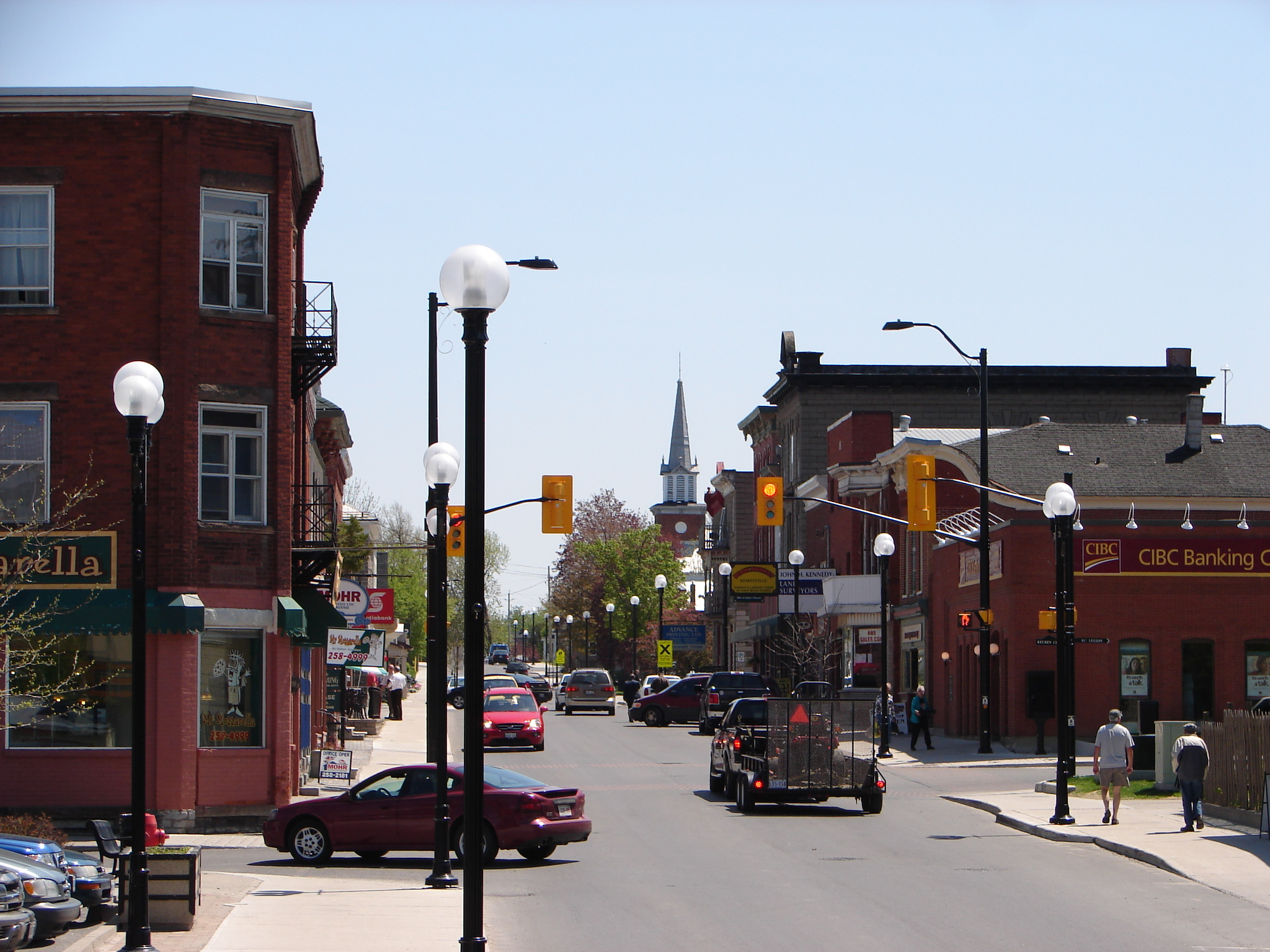 Kemptville (North Grenville township), Ontario, Canada